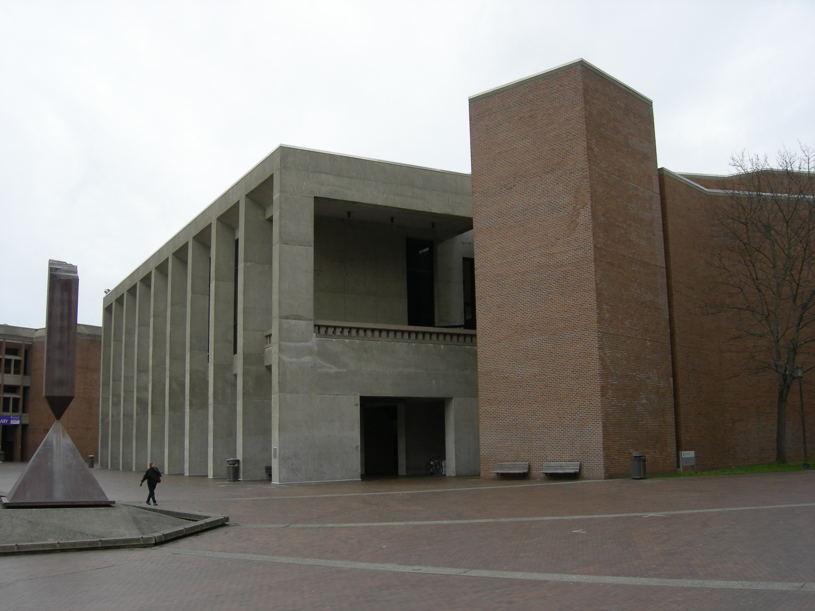 Kane Hall, University of Washington. View from in front of Suzzallo Library. At left is Barnett Newman's Broken Obelisk.